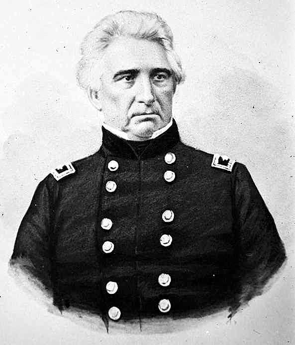 Duncan Lamont Clinch, US Representative from Georgia